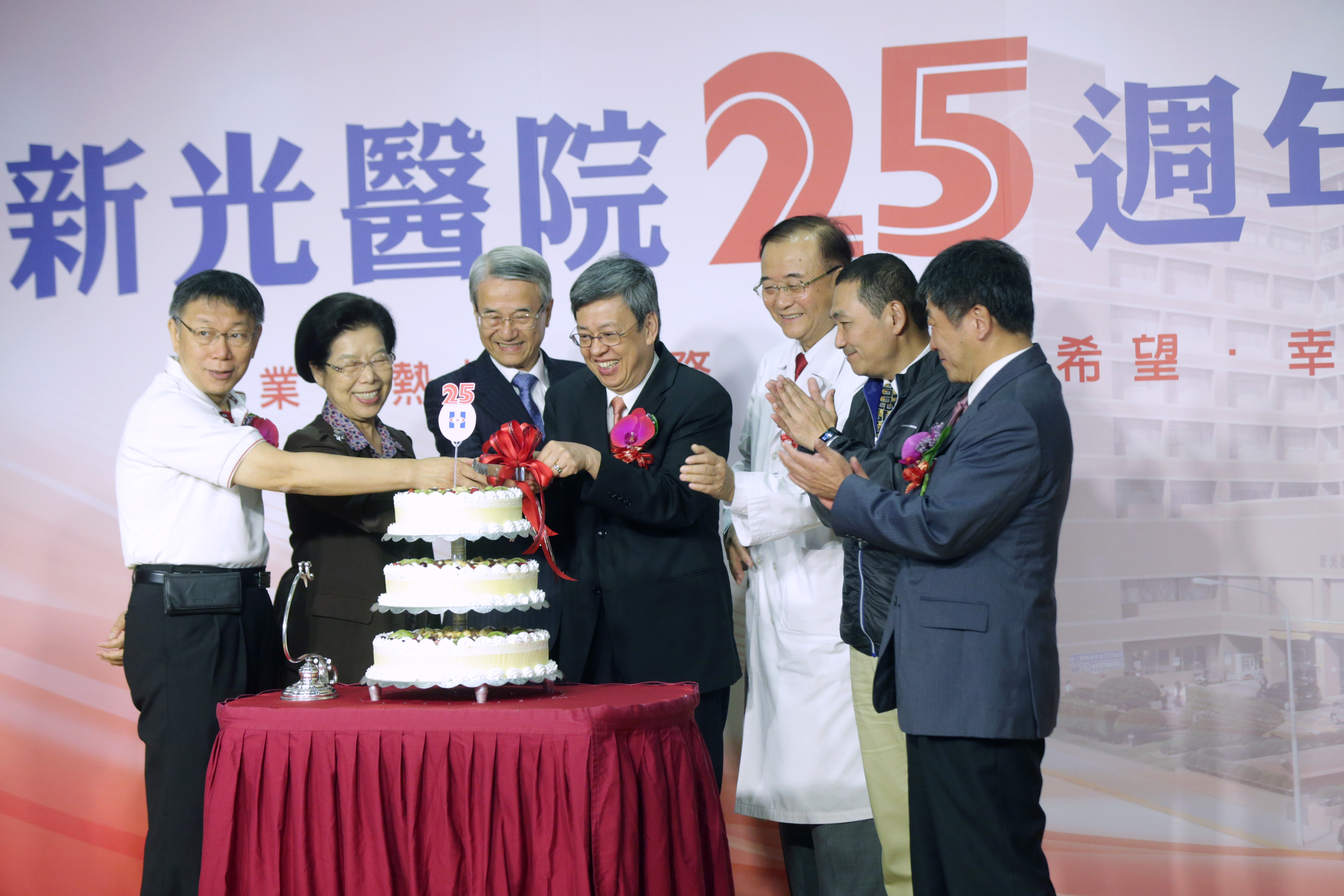 授權方式及範圍：中華民國總統府│政府網站資料開放宣告 Authorization Method & Scope: Office of the President, Republic of China (Taiwan) | Government Website Open Information Announcement